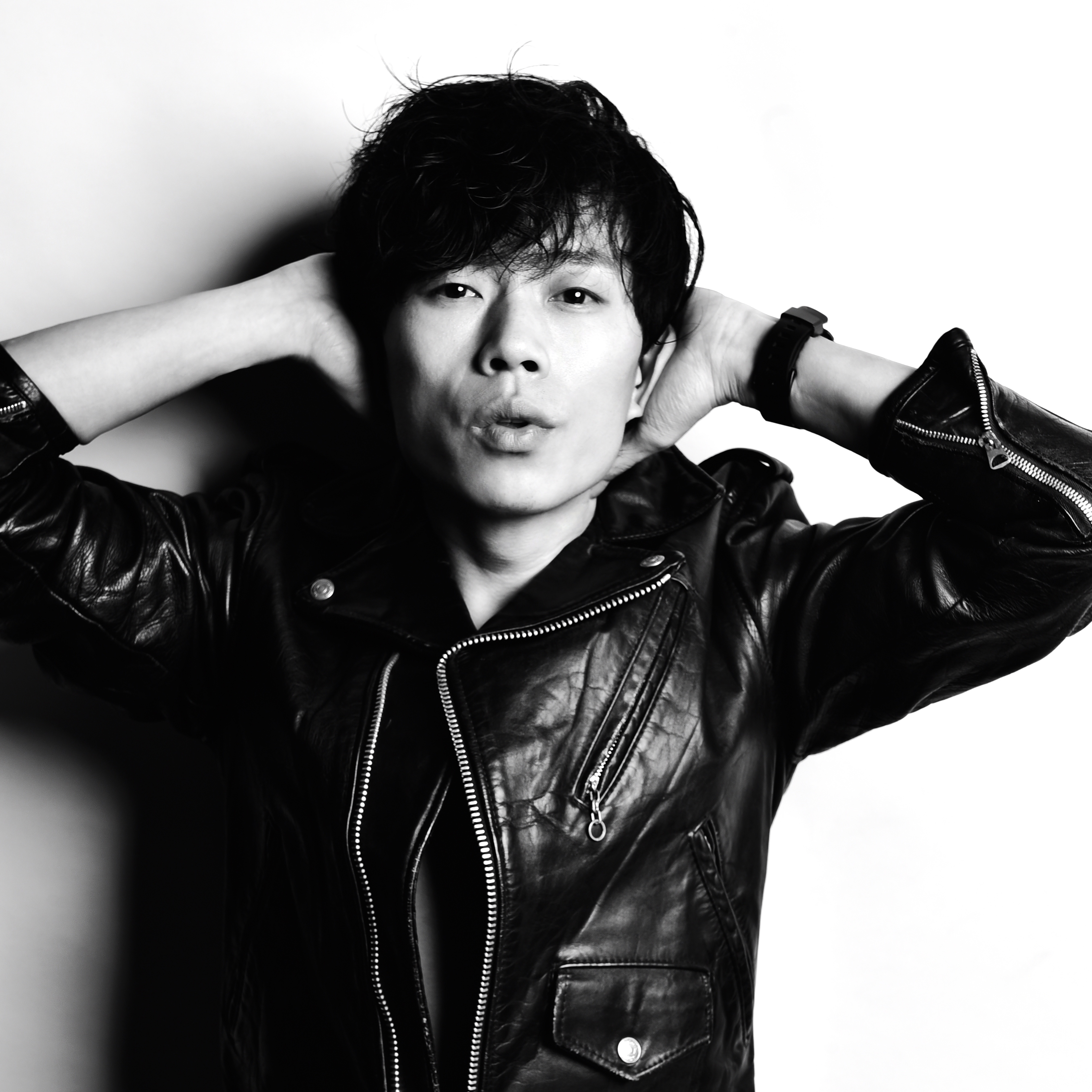 photo_zhaolei